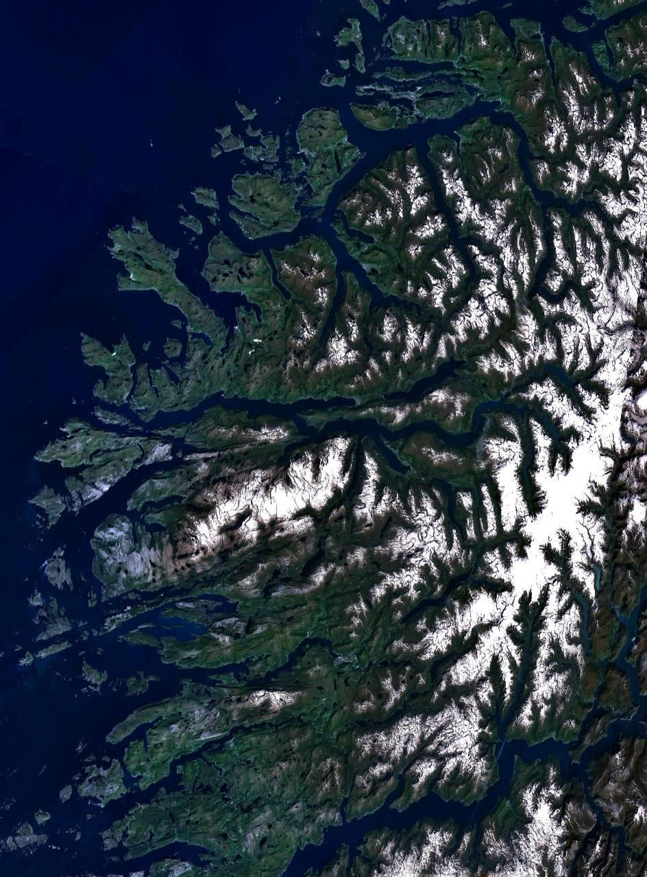 NASA World Wind screenshot of fjords in Sogn og Fjordane, Norway. The straight fjord in the middle is Nordfjord.